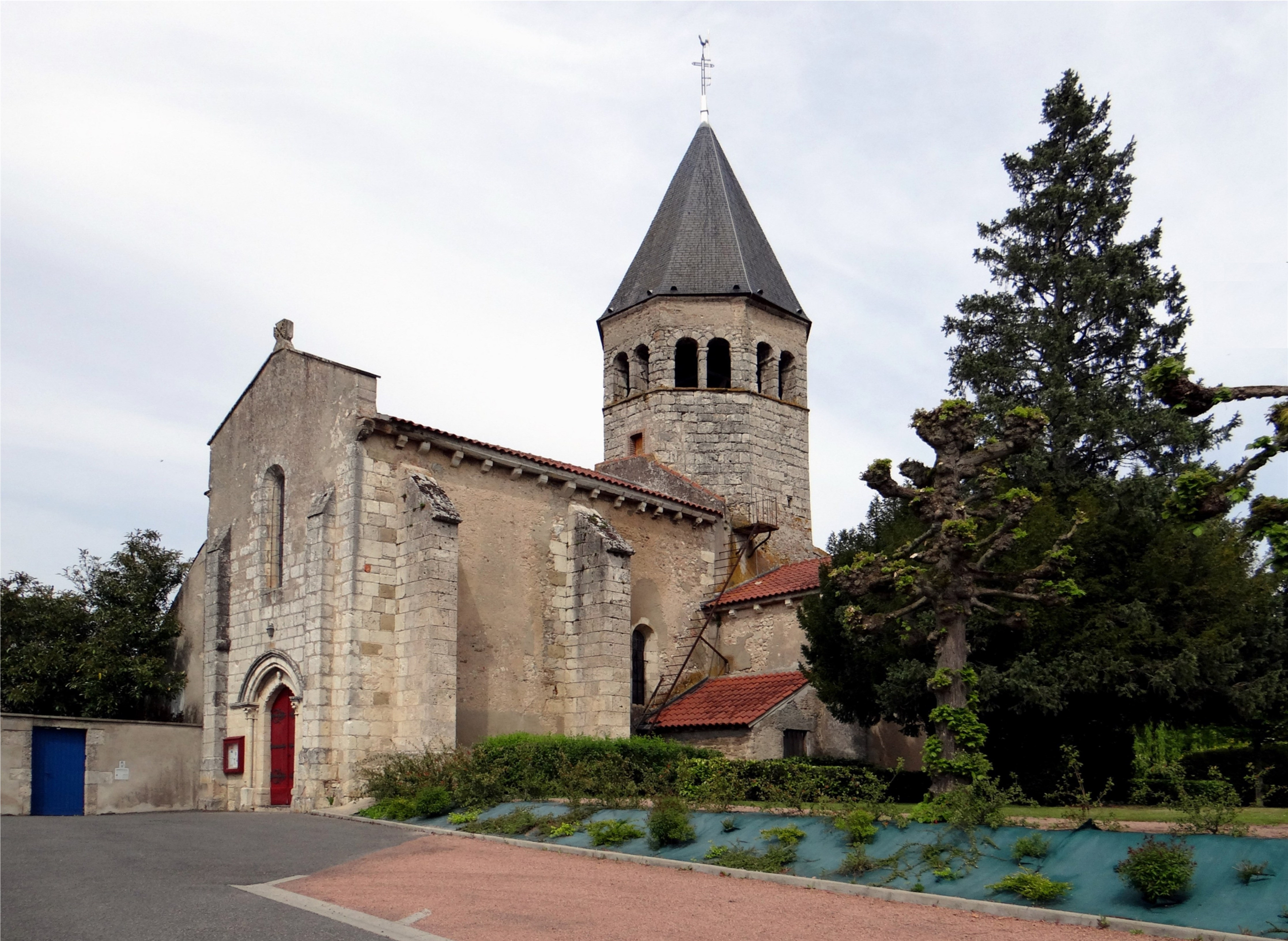 Church of Saint-Vincent-de-Paul, Magnet, Allier, France.